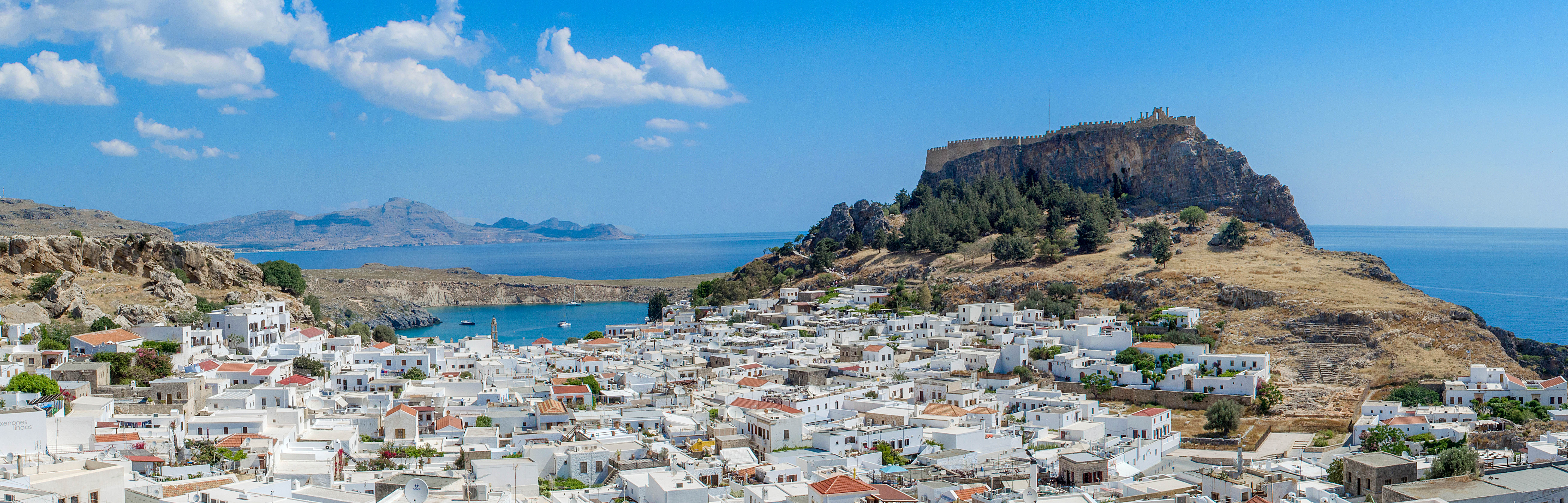 Lindos«Λίνδος»